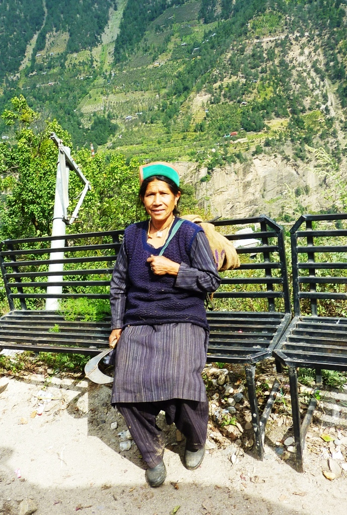 This photo shows a typical Kinnaur farm worker wearing a traditional Kinnaur cap with the bright green flap in the front.